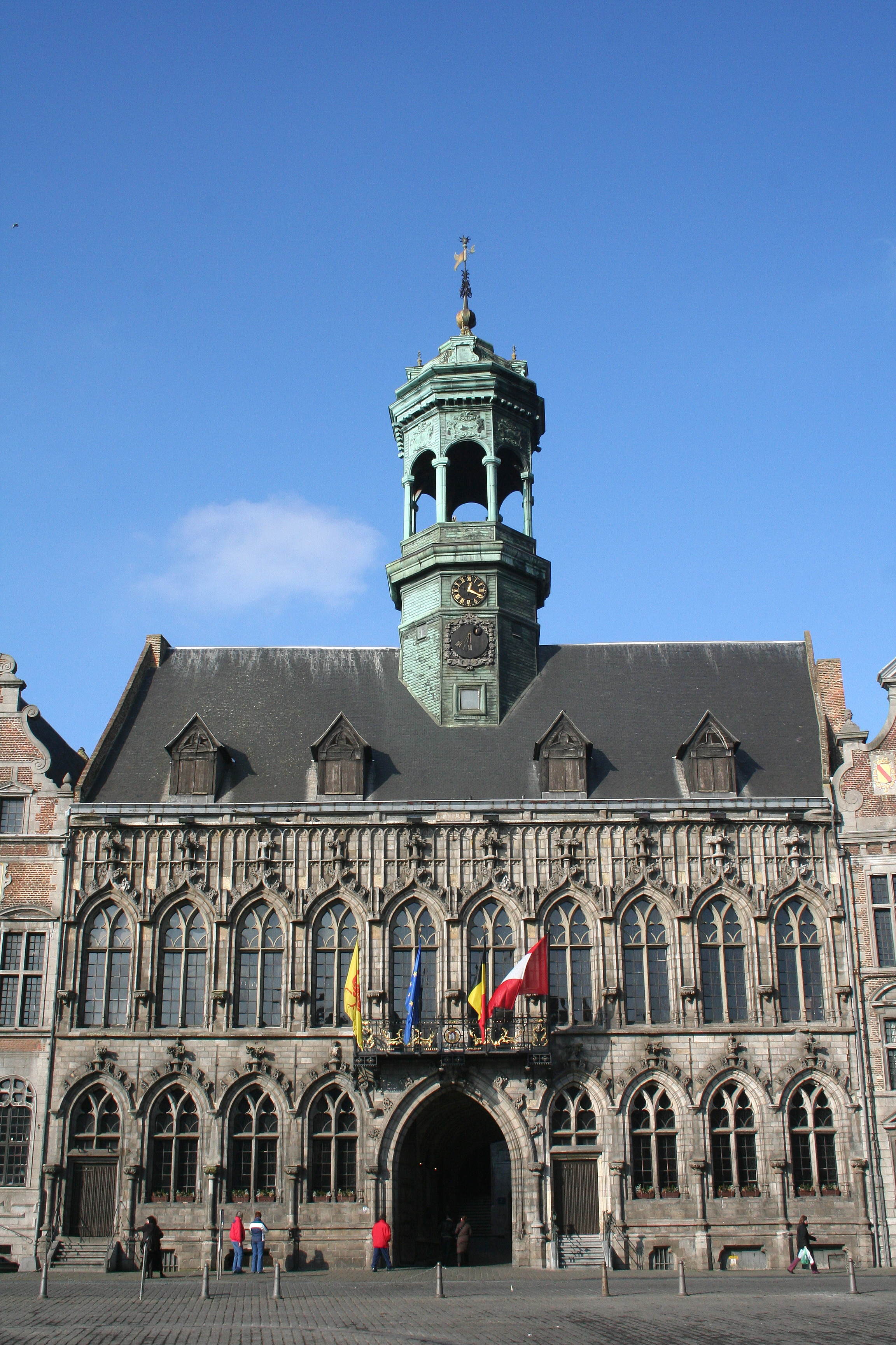 Mons (Belgium), the city hall (1458-1477).